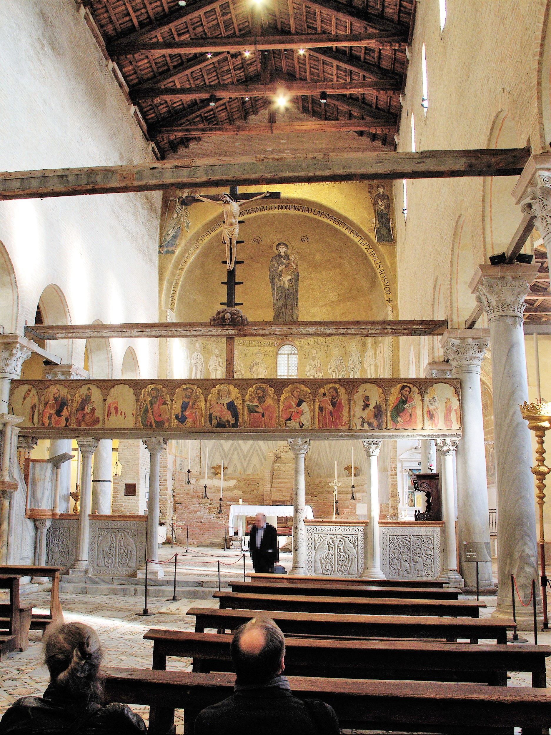 Apse and Iconostasis. Torcello, Santa Maria Assunta.